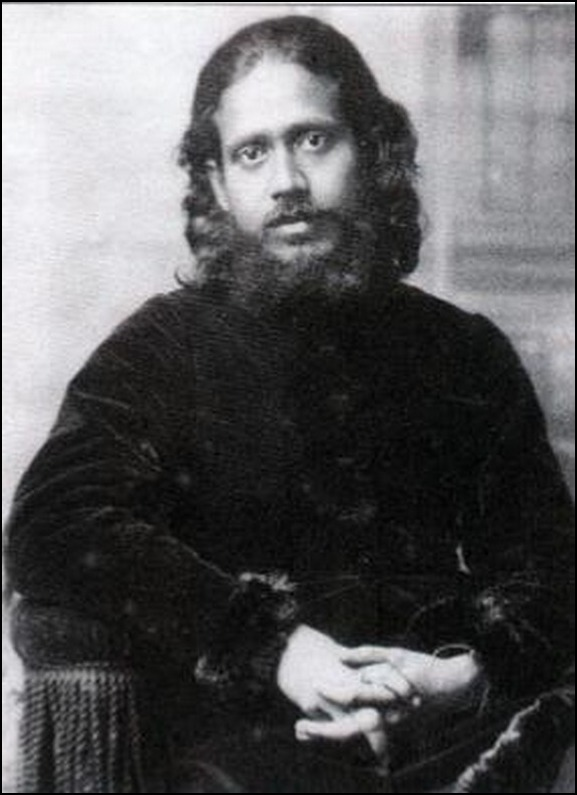 A member of the Theosophical Society Mohini Mohun Chatterji (1858-1936)